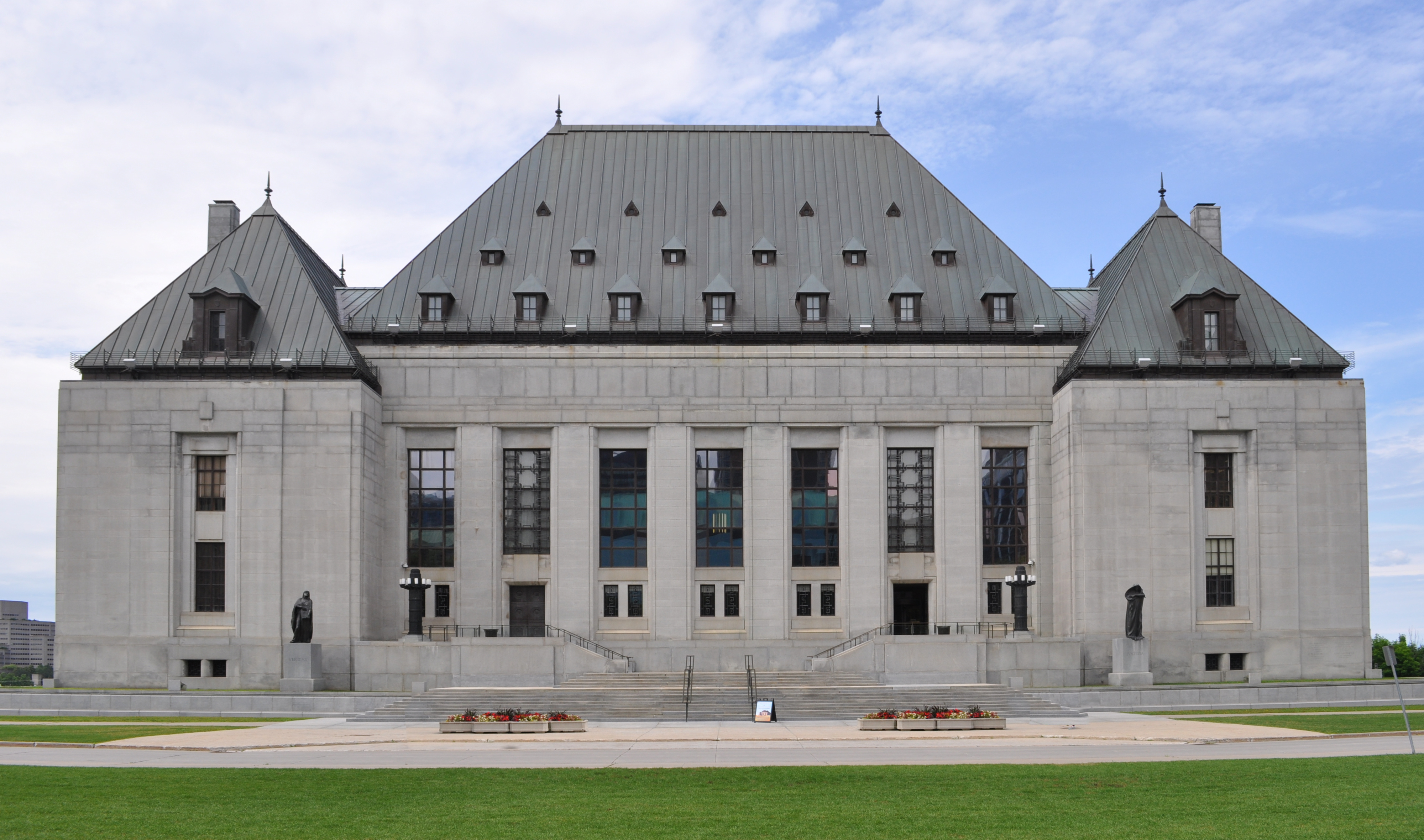 A photo of the Supreme court of Canada building in Ottawa. No people are present in the photo.